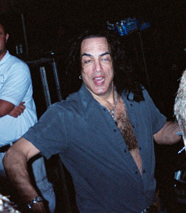 Paul Stanley, of KISS, looking just a tad.. um... odd.